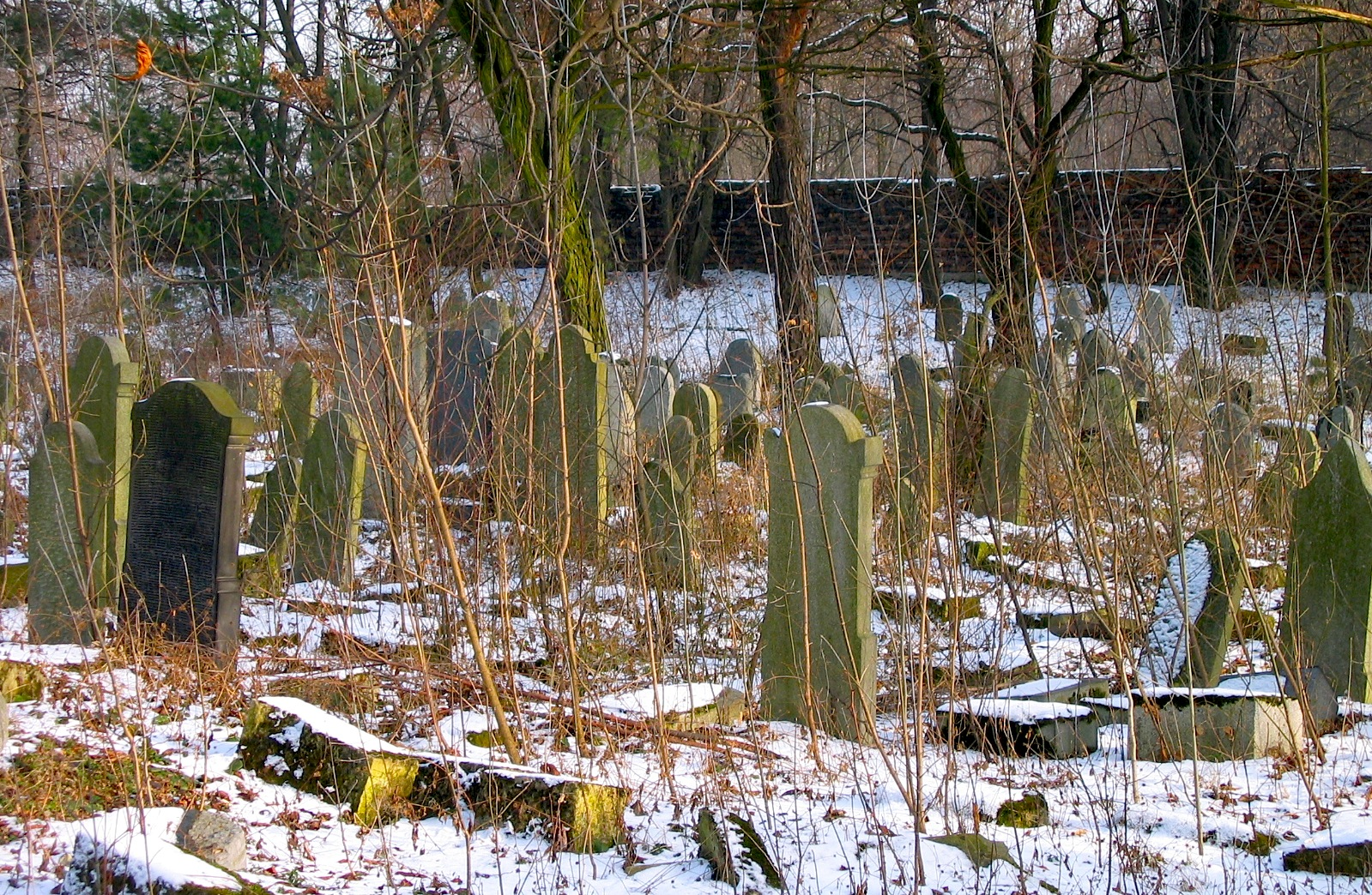 Jewish cemetery in Chrzanów